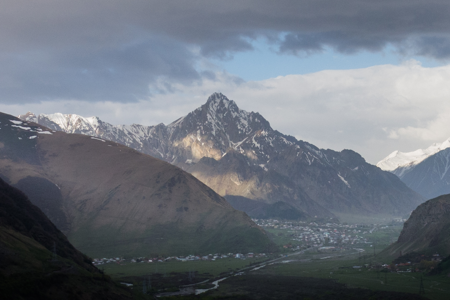 Mount Kabarjina (view from Stepantsminda), Mtskheta-Mtianeti, Georgia